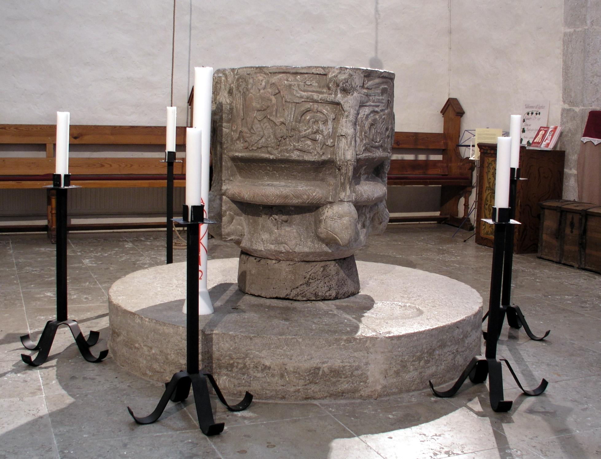 Barlingbo church, Gotland, Sweden